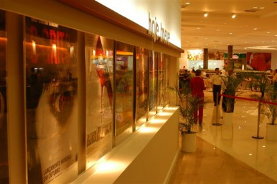 The city of Tubarao, Santa Catarina state, Brazil.